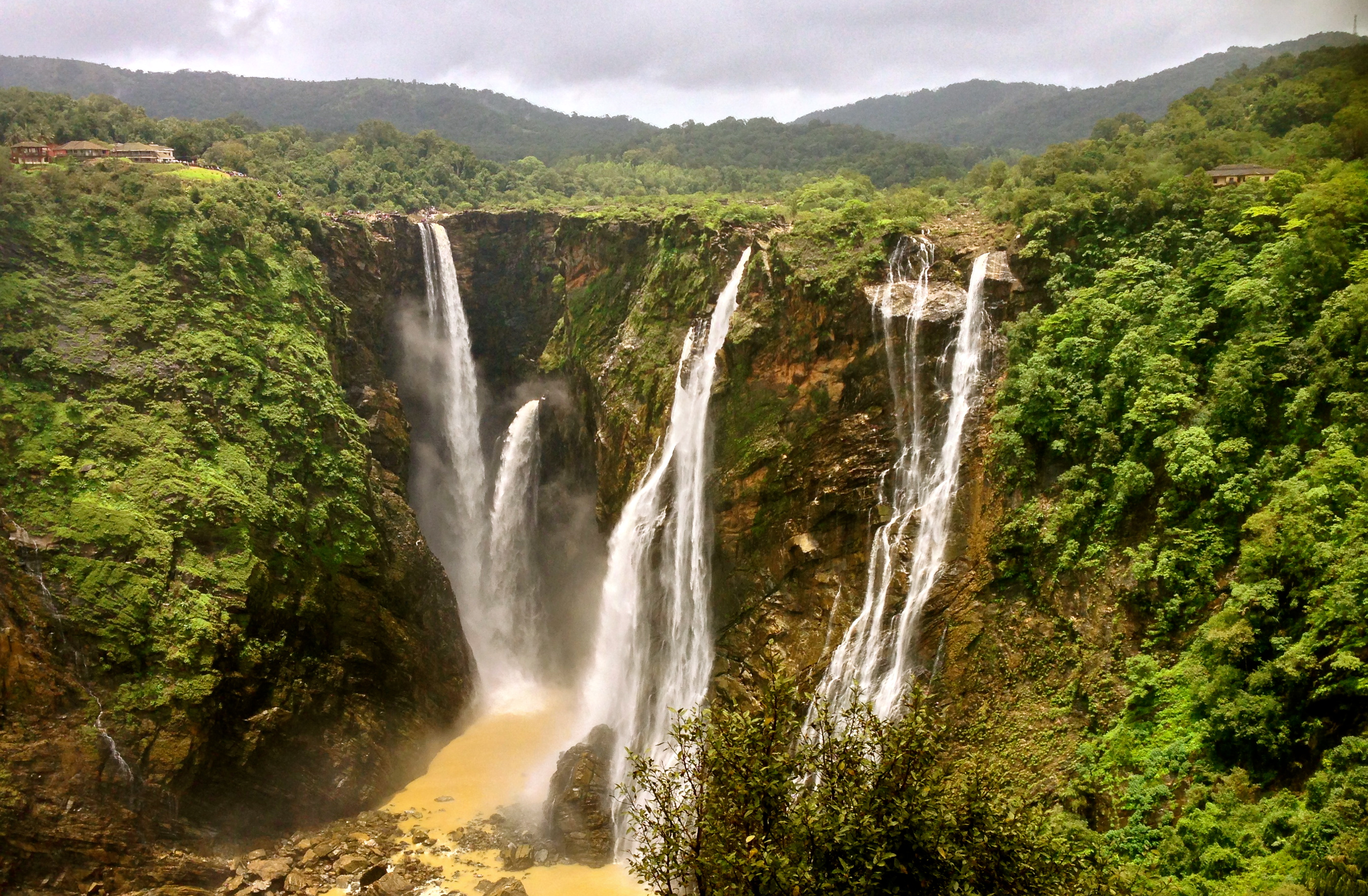 A photo of Jog Falls in late monsoon, c. 2013